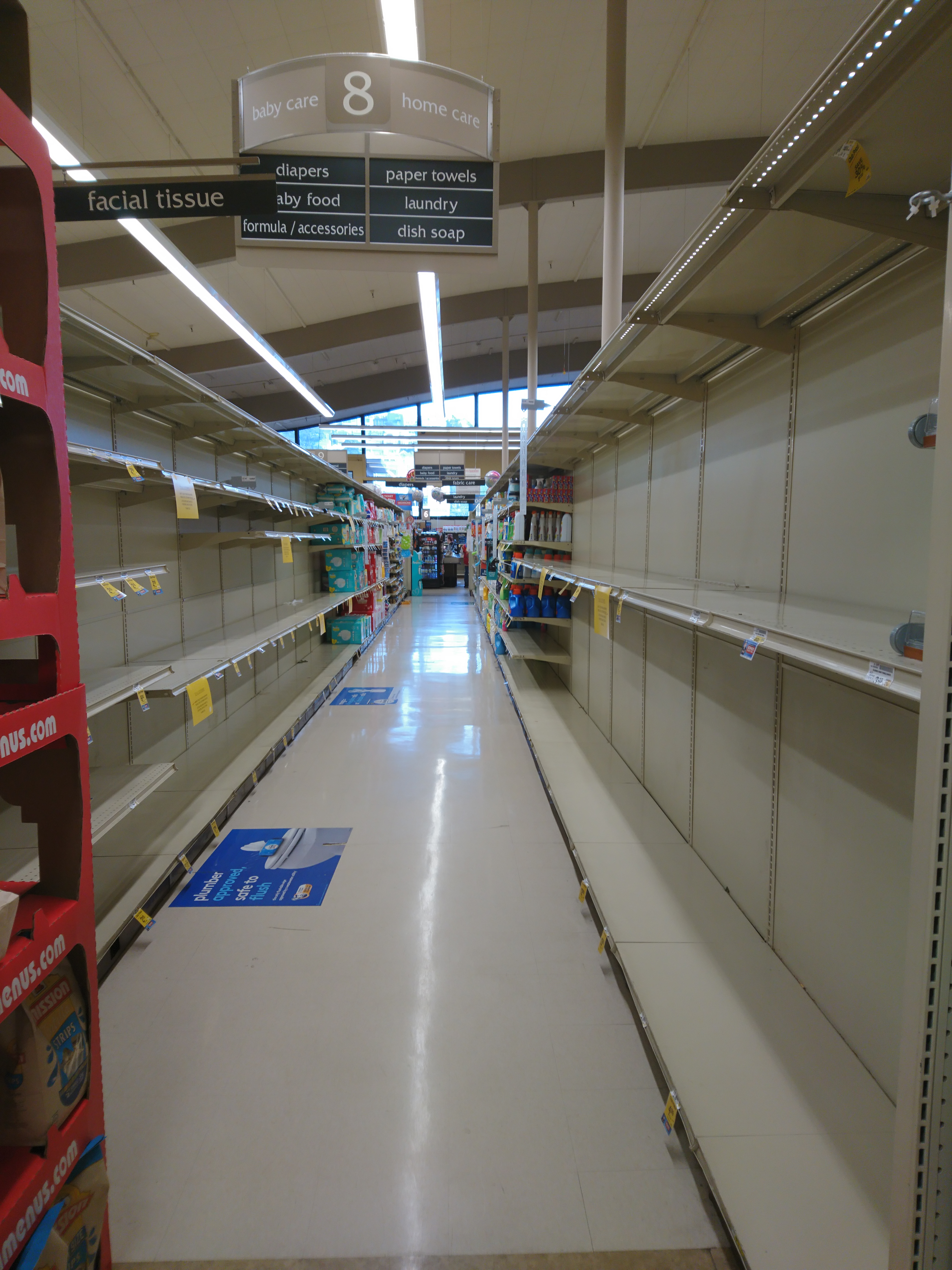 30th & Mission Safeway toilet paper and paper towel aisle empty at 5pm on day 1 of San Francisco's shelter-in-place order.